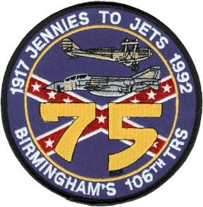 106th Reconnaissance Squadron 75th Anniversary Patch 1992